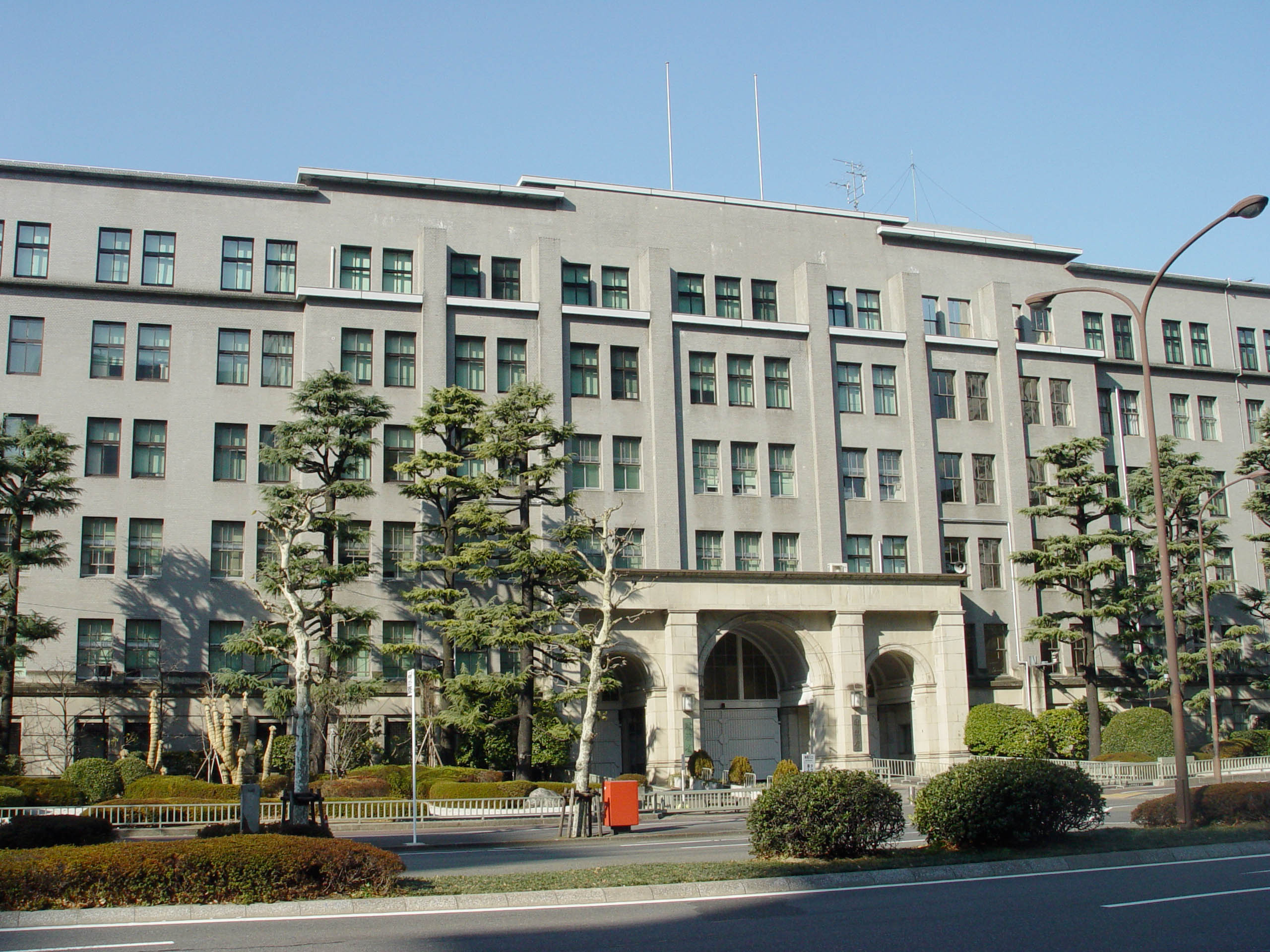 Public office building of Japan: The Ministry of Finance 庁舎： 財務省